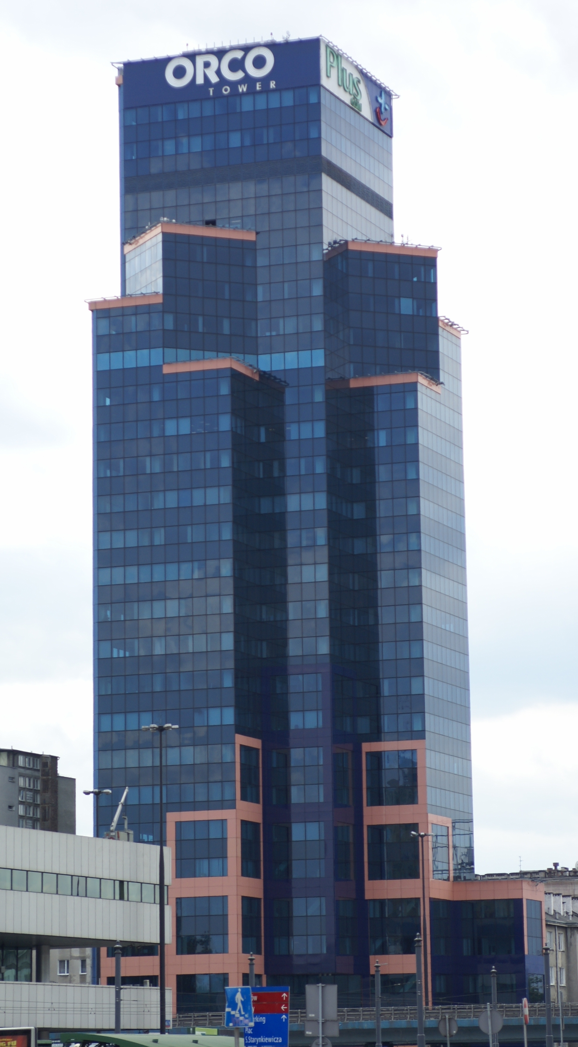 Orco Tower, Warsaw, Poland